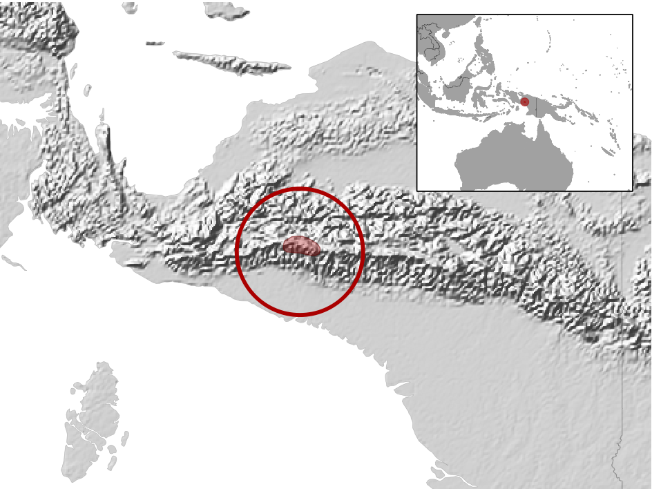 geographic distribution of Lobulia glacialis